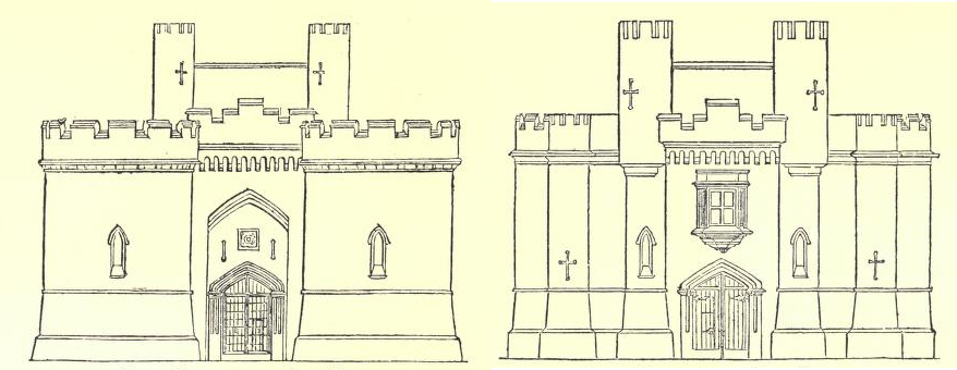 The front and interior elevations of the York Castle Prison gatehouse in the Victorian period.